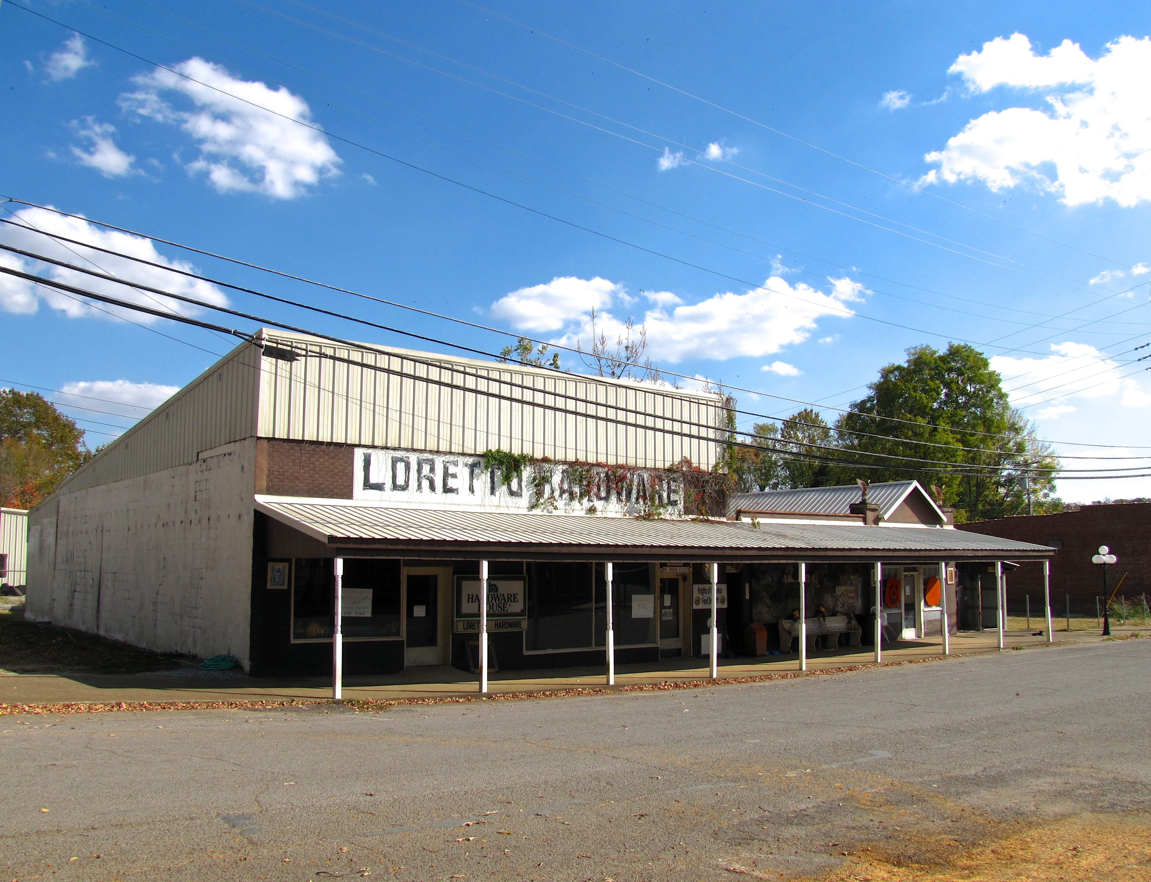 Loretto Hardware in Loretto, Tennessee, United States.